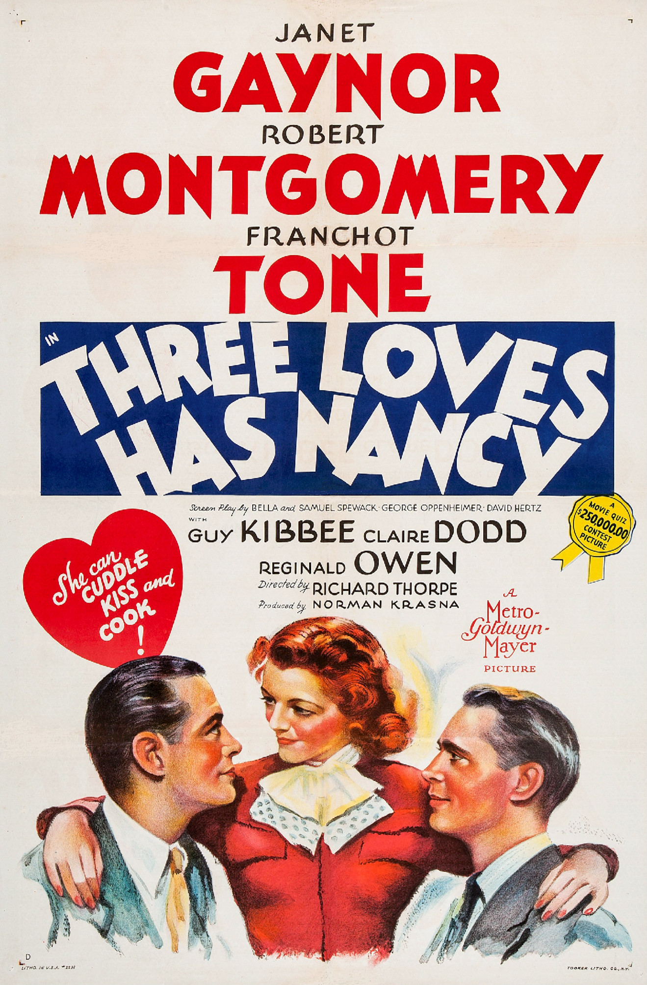 Poster from the 1938 film Three Loves Has Nancy.